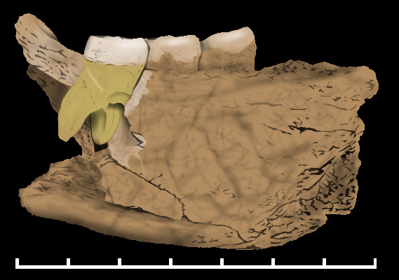 BH-1 mandible, Mala Balanica cave, Serbia